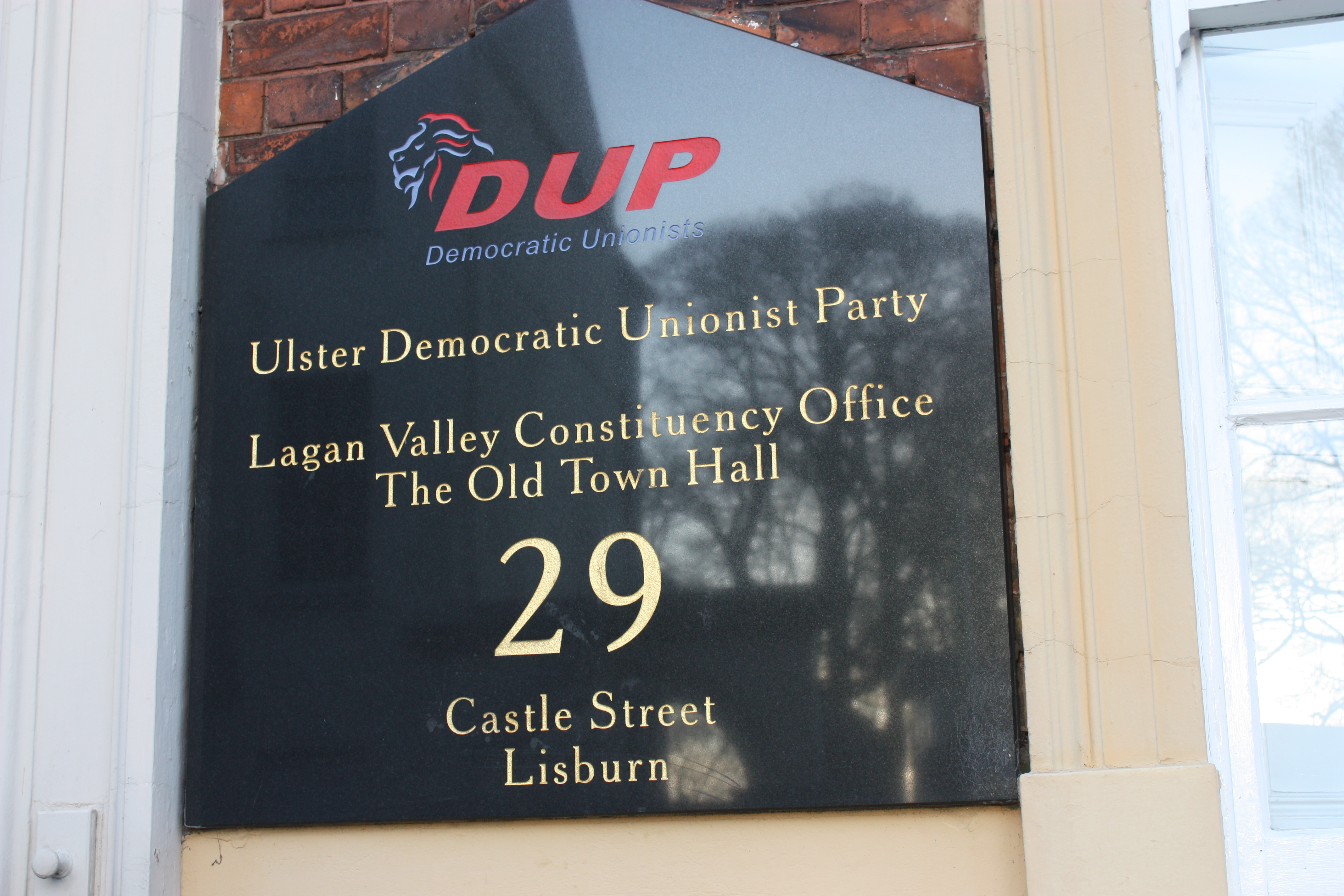 Democratic Unionist Party (DUP) office, Castle Street, Lisburn, County Antrim, Northern Ireland, November 2010